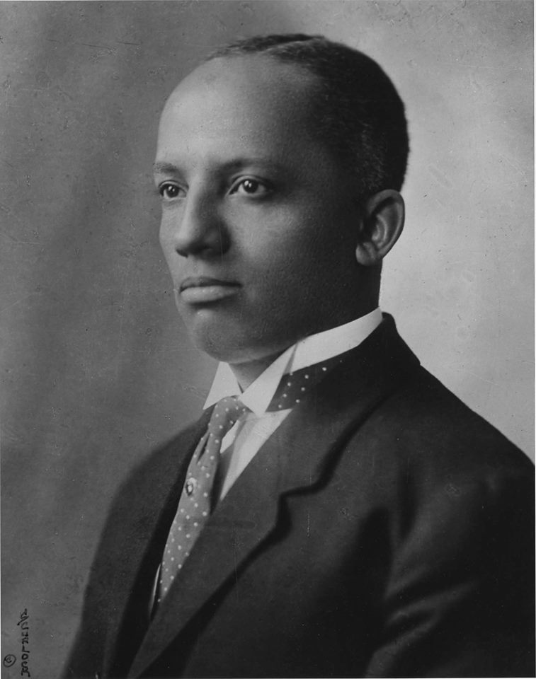 During the dawning of the twentieth century, it was widely-presumed that people of African descent had little history besides the subjugation of slavery. Of course, it is obvious today that Africans have significantly impacted the development of the social, political and economic structures of not just the United States but also the world. Credit for the evolving awareness of the true place of blacks in history can, in large part, be bestowed upon one man, Dr. Carter G. Woodson. Dr. Woodson's parents had been enslaved, so he understood the importance of a proper education. Though he didn't begin his formal education until the age of 20, he earned his high school diploma, bachelor's and master's degrees in the span of a few years. Then, in 1912, he became the second African American to earn a PhD from Harvard and was the first person of enslaved parents to earn a PhD in history! Keywords: father of black history; history; historical; woodson; carter; afro-american newspaper; negro history week; black history month; black history; african american